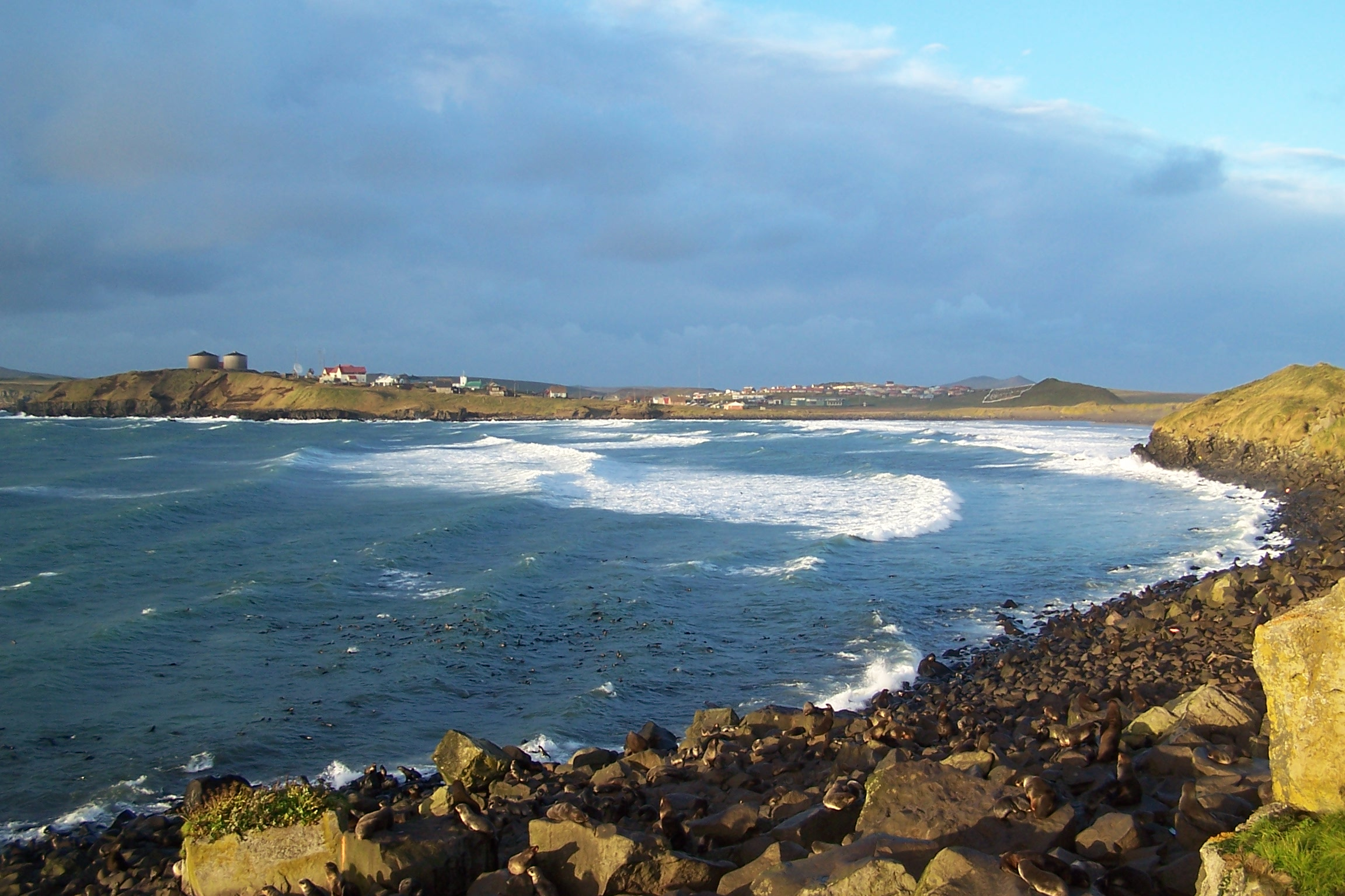 Saint Paul Island, Alaska, foreground, fur seals on rookery and in water. Saint Paul Village in distance